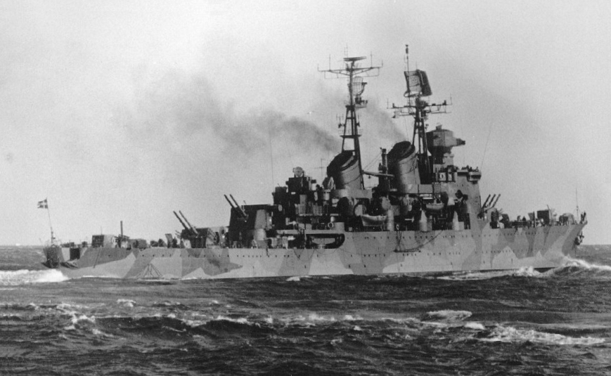 Swedish cruiser HMS Göta Lejon, commissioned in 1947. Later sold to Chile and renamed Almirante Latorre.